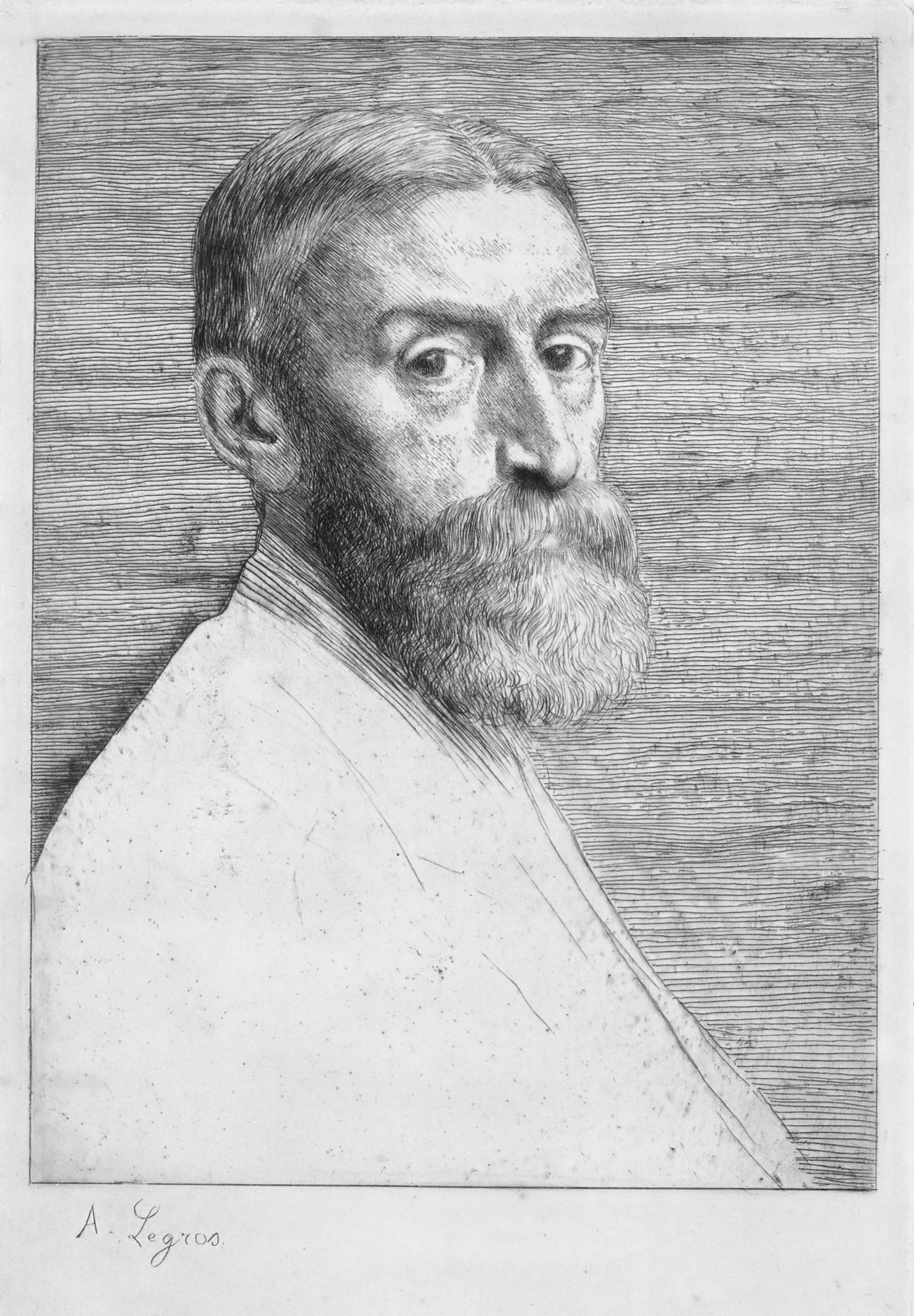 Portrait of Sir Edward J. Poynter PRA etching 26 x 17 cm